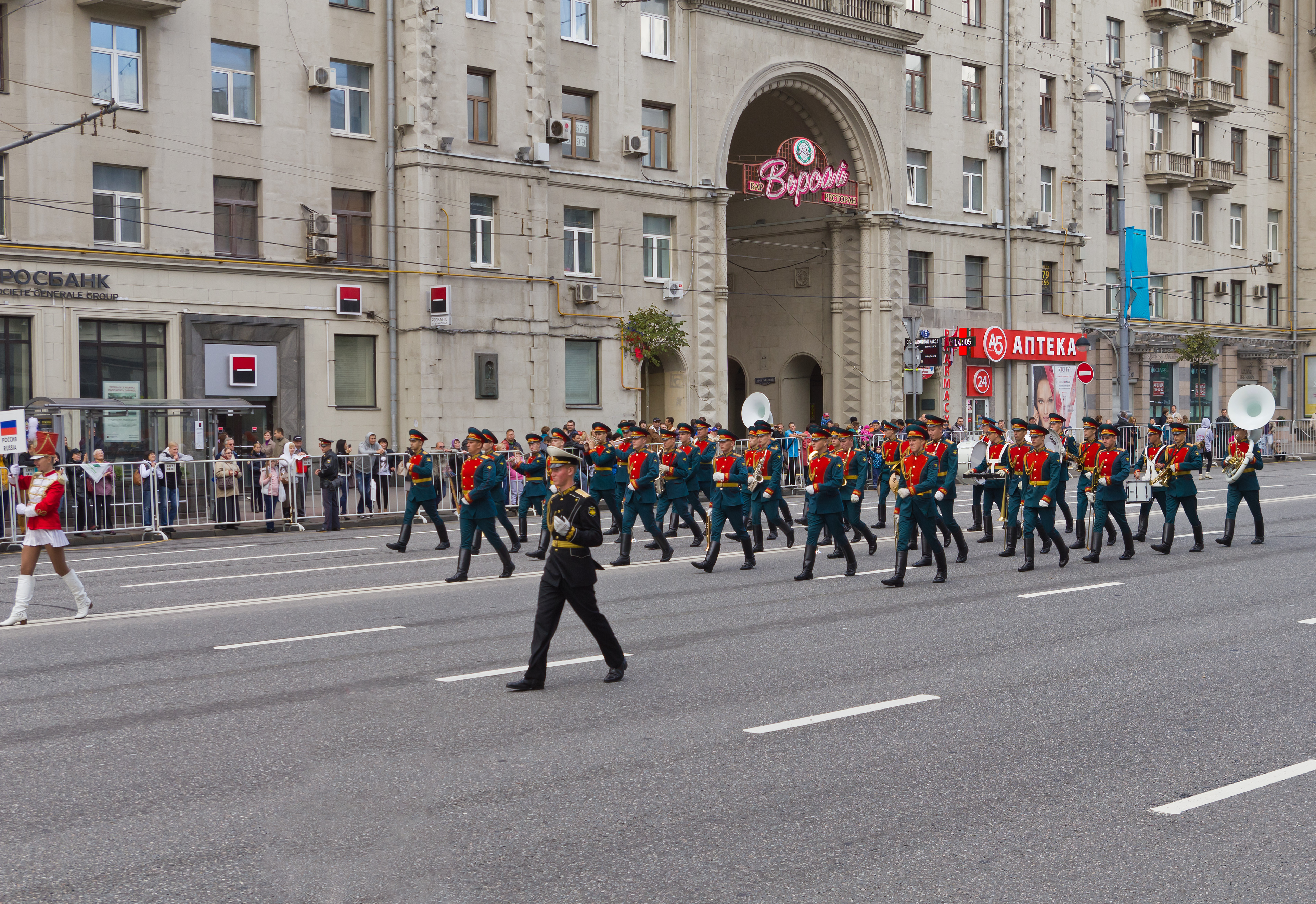 Day of the Town 2013 in Moscow, Russia. Tverskaya Street.